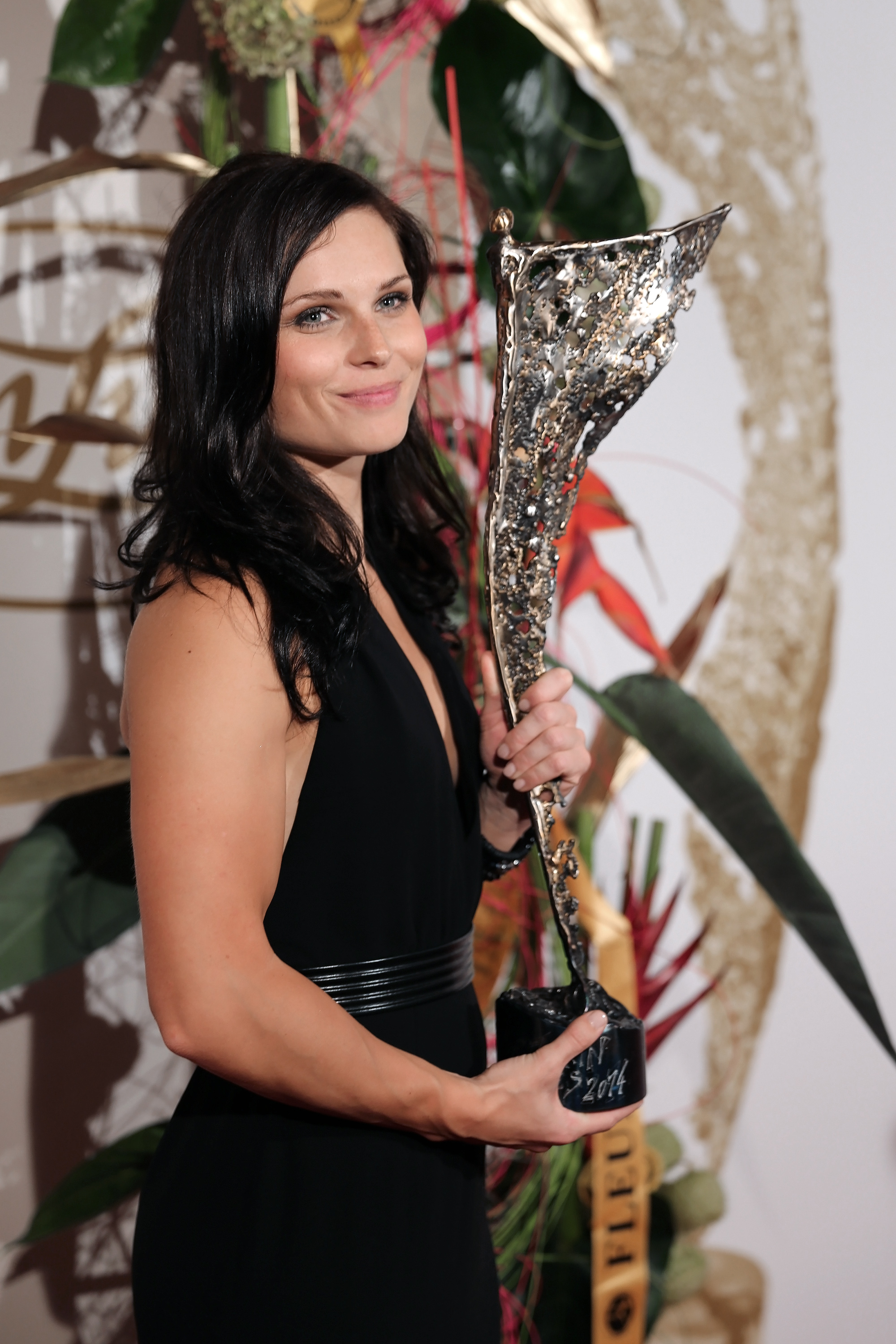 Anna Veith - Austrian Sportspersonalities of the Year 2014 (Austria Center Vienna).